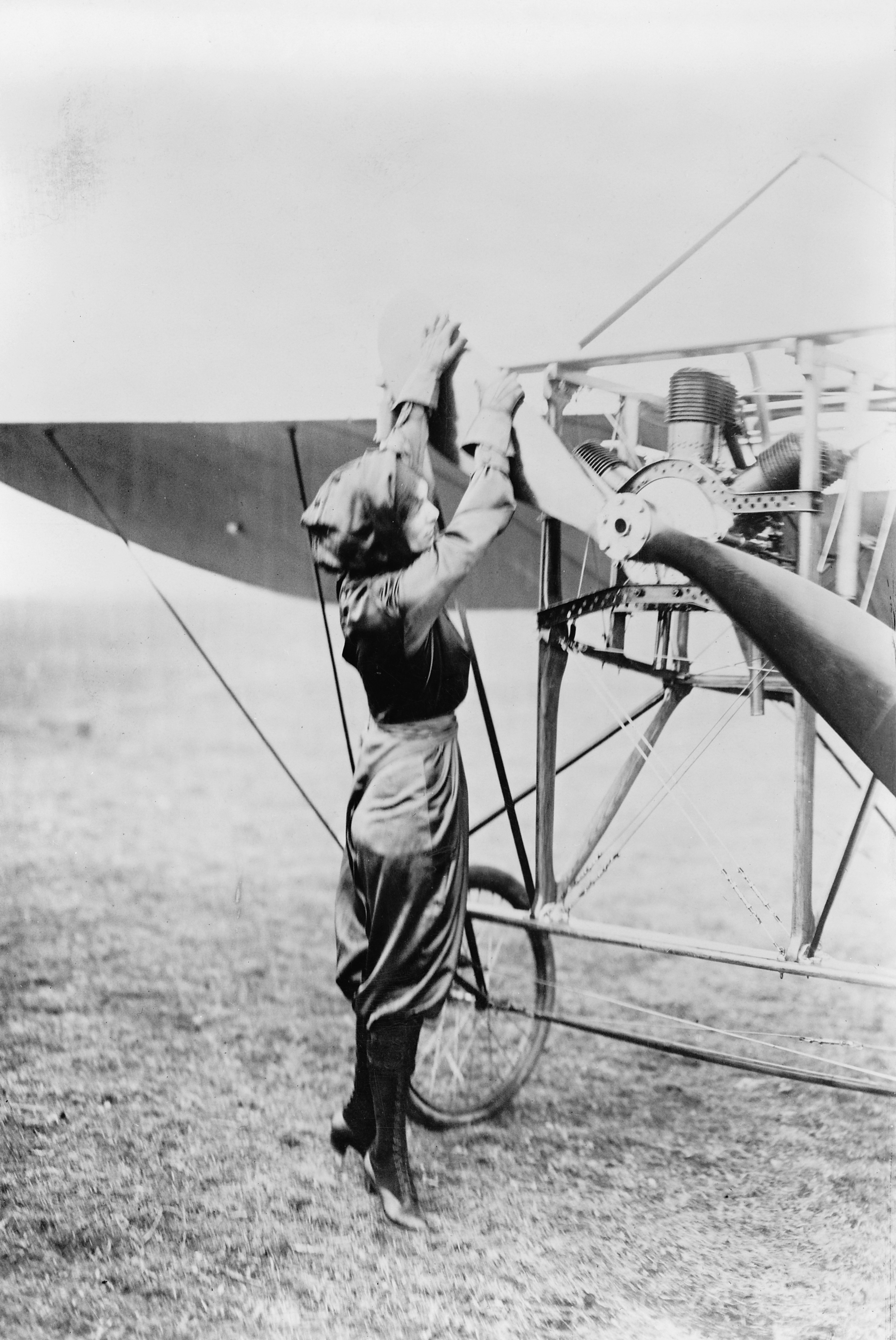 Harriet Quimby turning over a plane propeller.